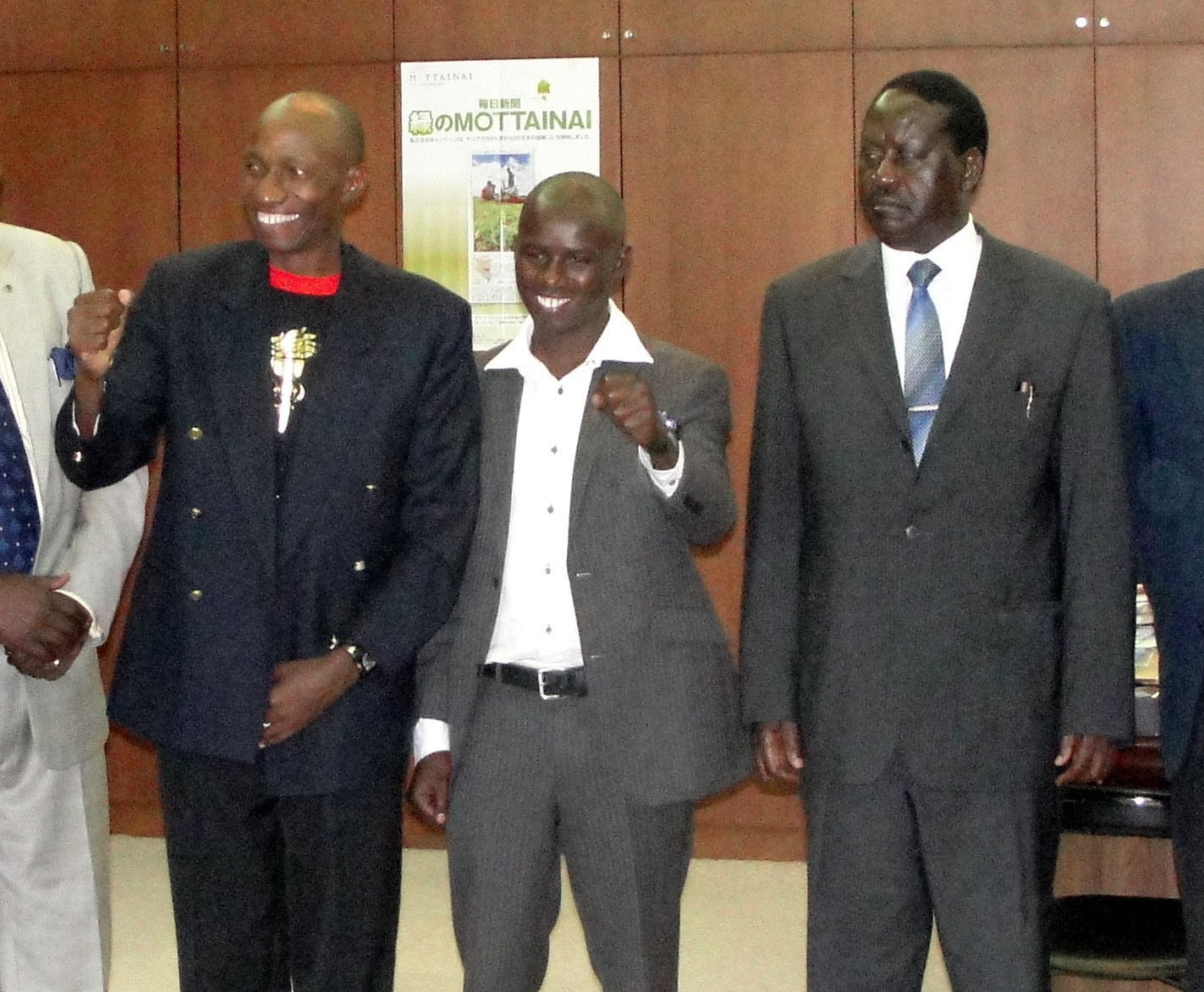 From left to right: Douglas Wakiihuri, Samuel Wanjiru and Raila Odinga at the Japanese Embassy in Kenya.